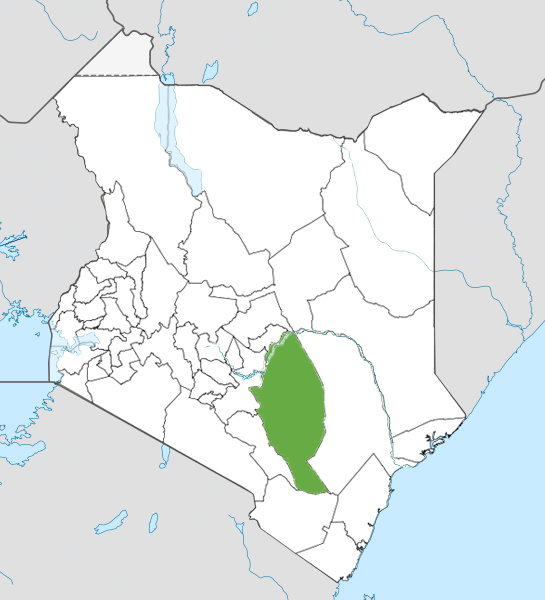 Kitui County location map